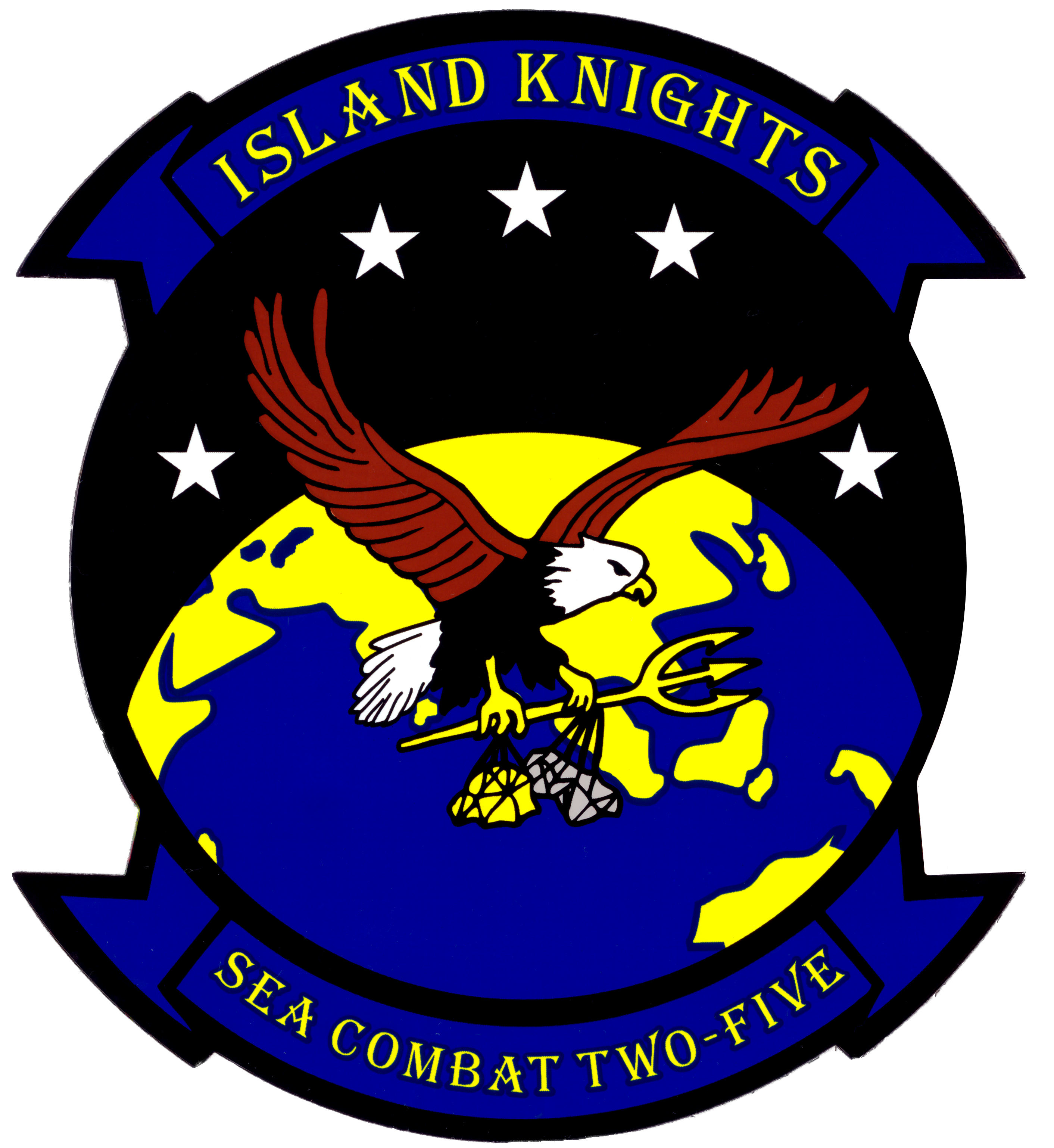 Emblem of the U.S. Navy Helicopter Sea Combat Squadron 25 (HSC-25) "Island Knights".